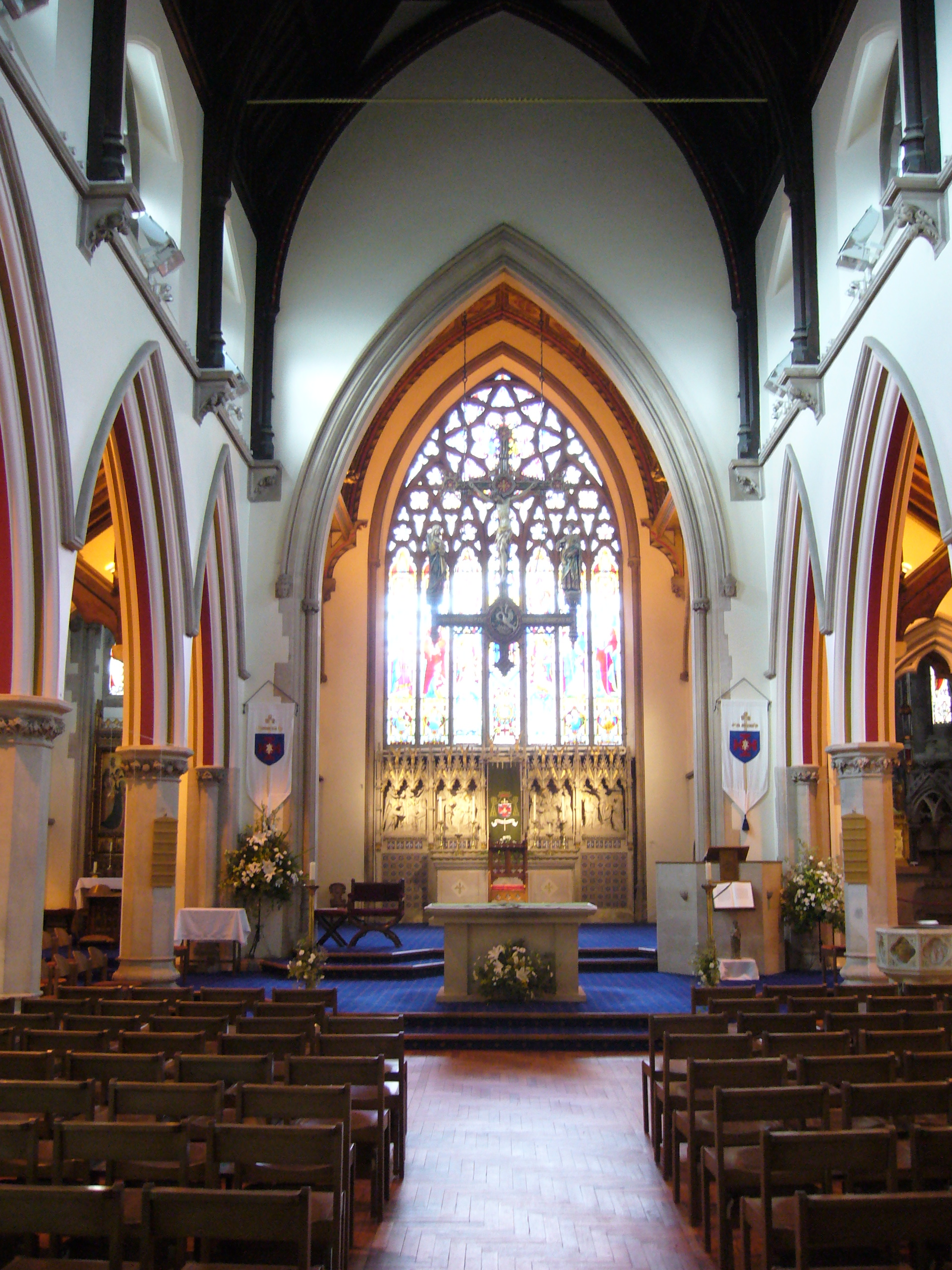 The cathedral in Shrewsbury, England (built in 1856)